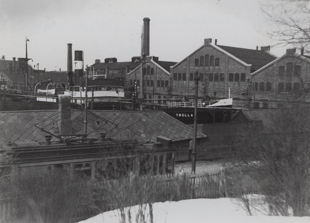 Format: Fotopositiv Dato / Date: 1930 Fotograf / Photographer: Røske & Røstad AS, Trondheim Sted / Place: Trondhjems Mekaniske Værksted, Trondheim Lenke / Link: DS "Trolla" Wikipedia: U-438 Wikipedia: Convoy ON 122 Wikipedia: Nortraship Wikipedia: 9th U-boat Flotilla Google Maps: bit.ly/Zf9Wmw Flyfoto 1937: bit.ly/15TWI6l Eier / Owner Institution: Trondheim byarkiv, The Municipal Archives of Trondheim Arkivreferanse / Archive reference: Tor.H45.F9826